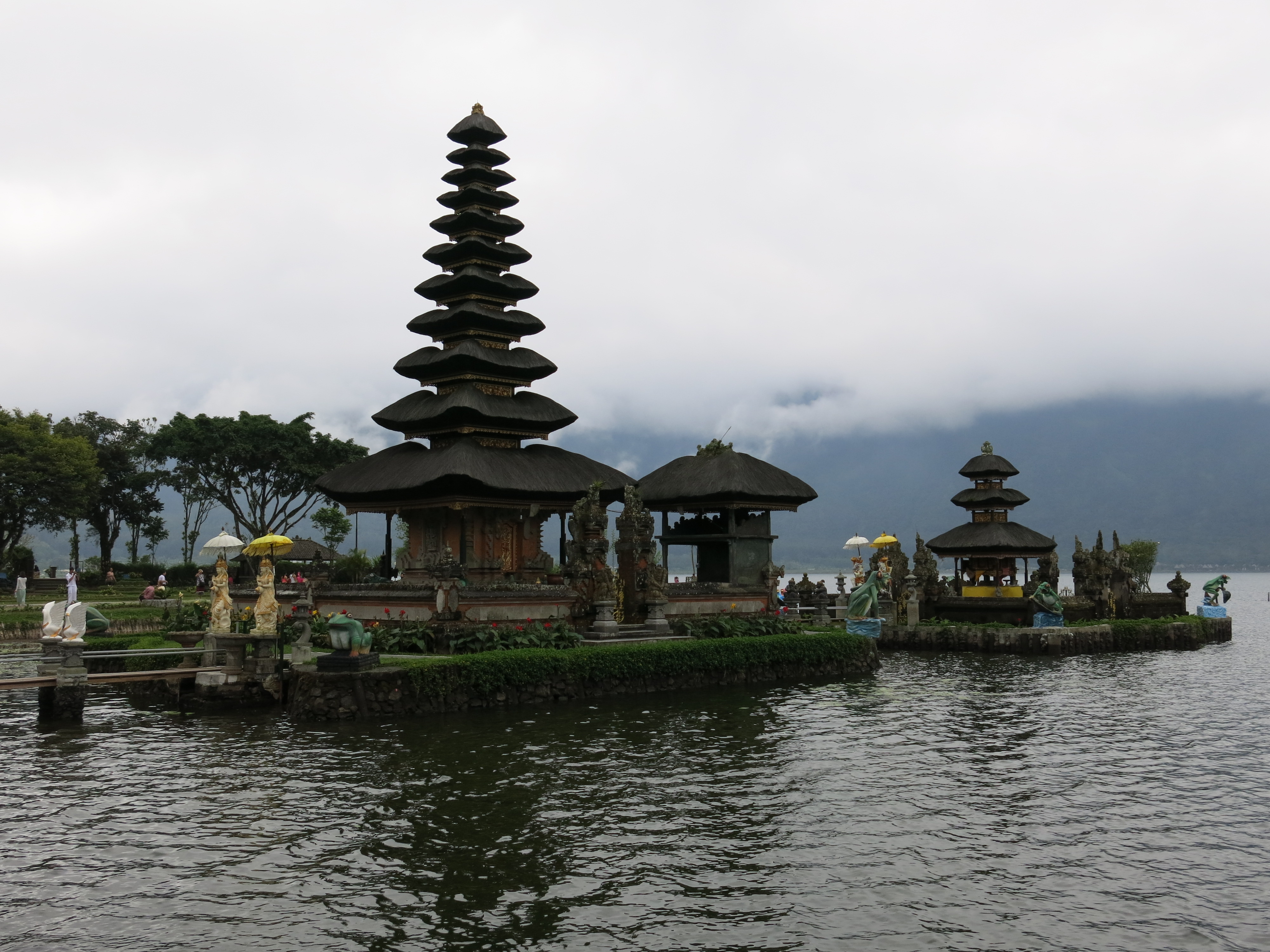 Pura Ulun Danu Bratan on Bali